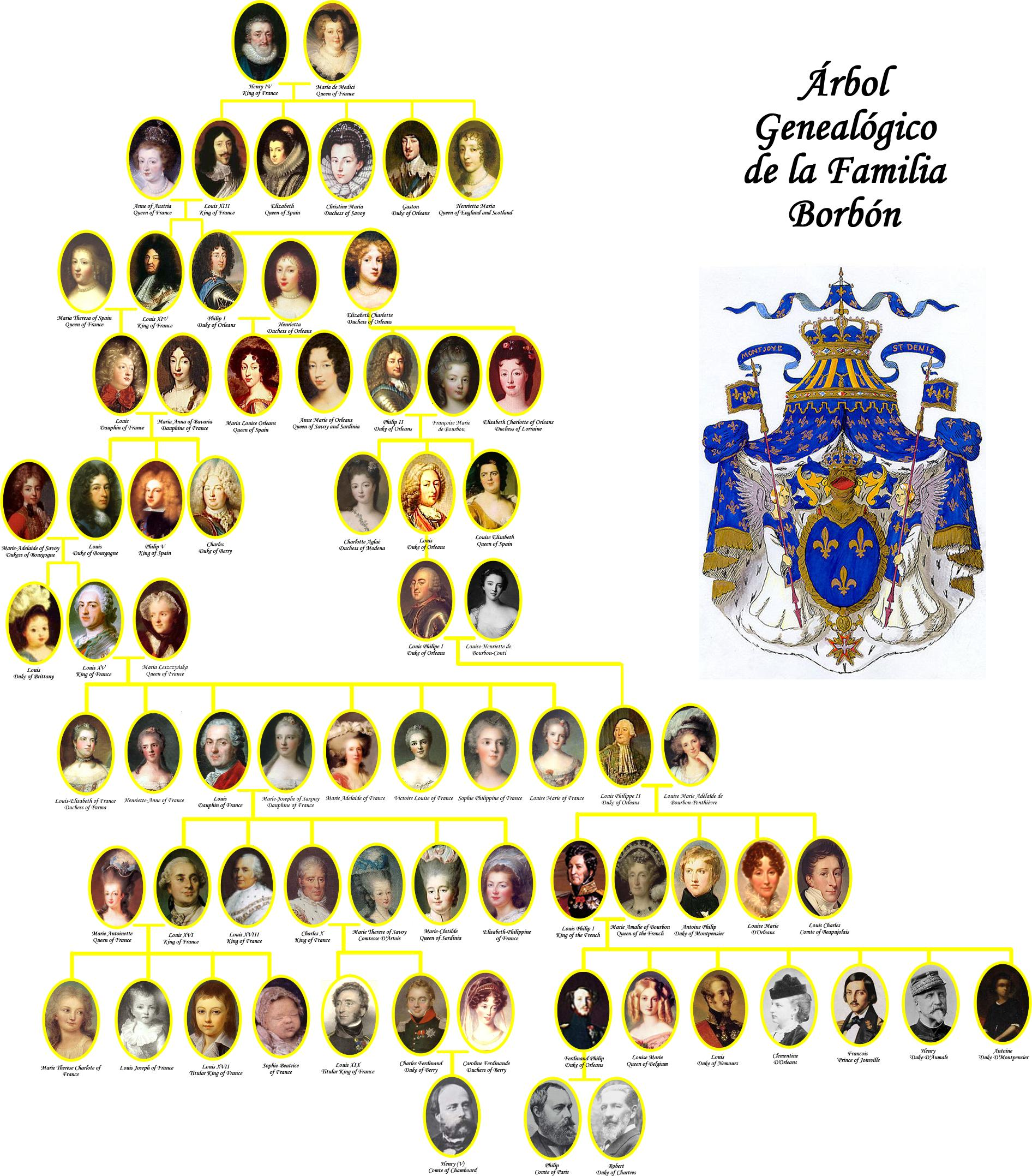 family tree of the French Bourbons